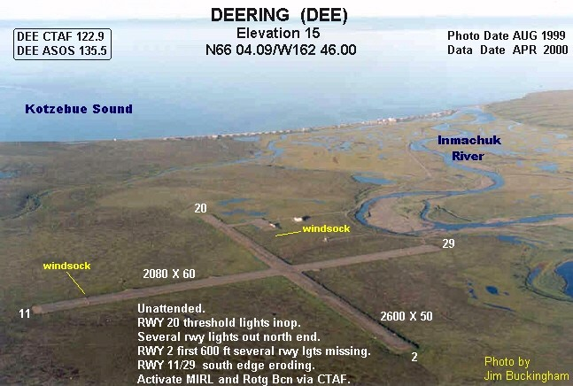 Oblique-Southwest aerial photograph of Deering Airport (FAA: DEE) in Deering, Alaska, United States.